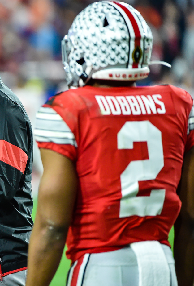 Dobbins in the huddle